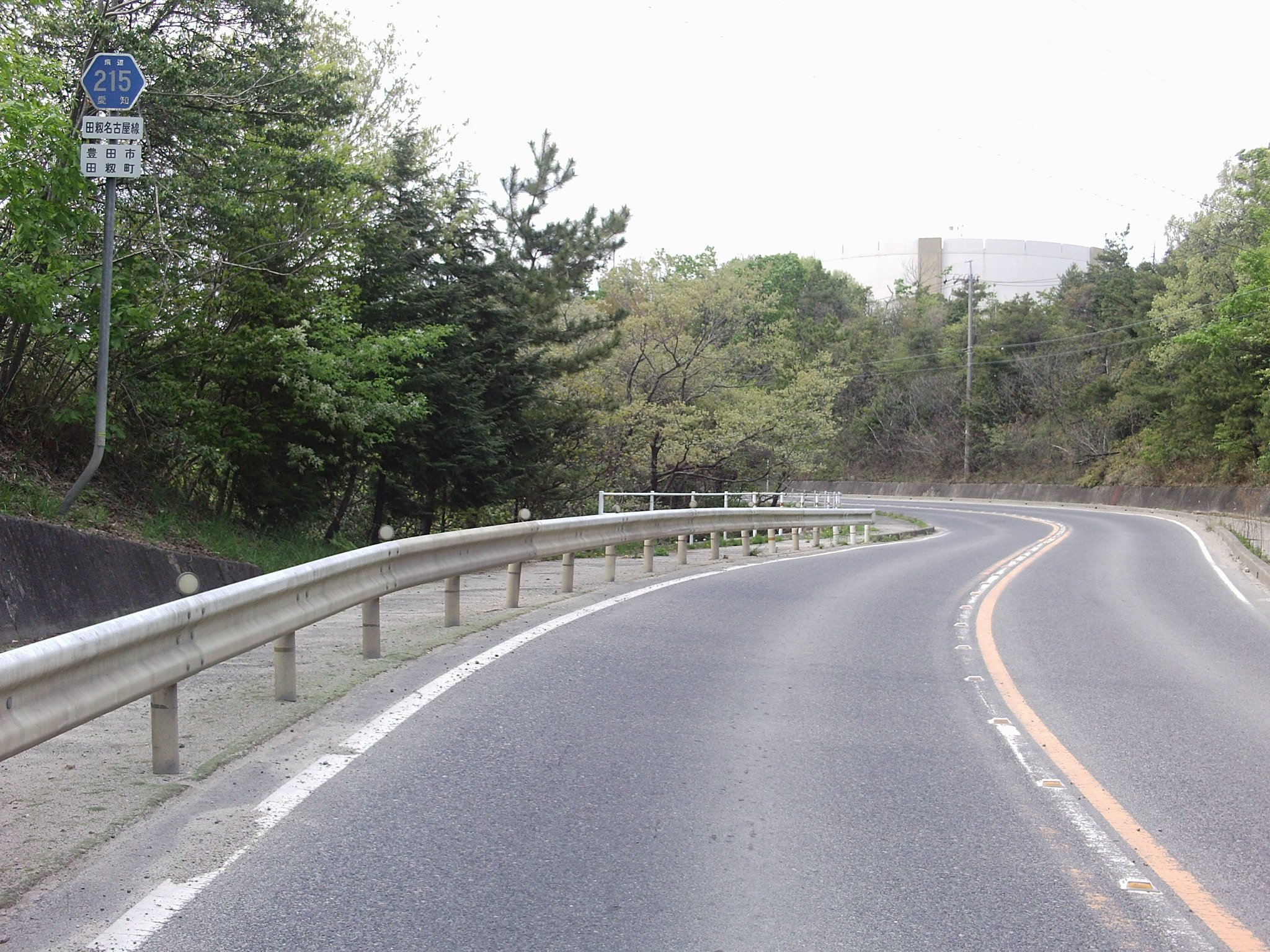 The Aichi Prefectural Road Route 215 in Tamomicho, Toyota City